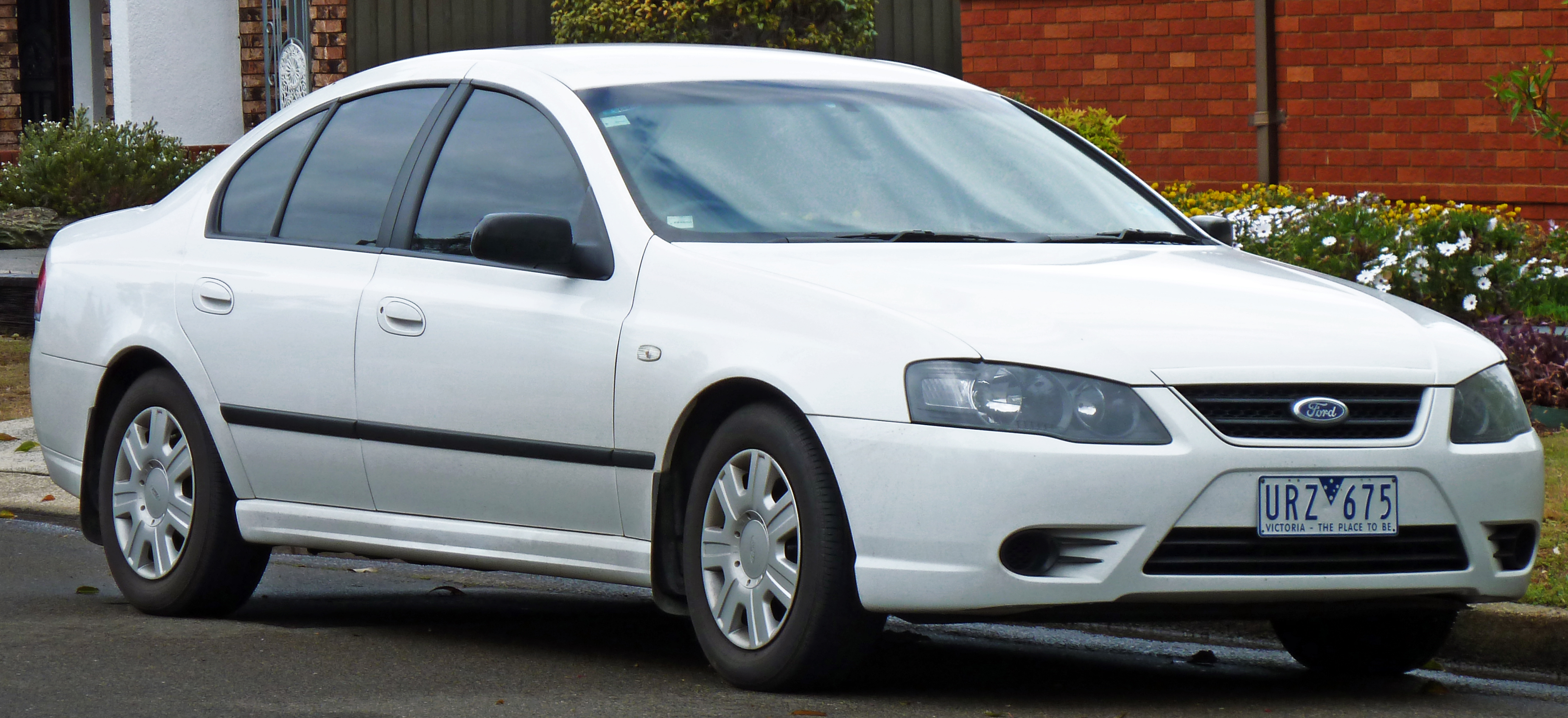 2007 Ford Falcon (BF II) XT sedan. Photographed in Sandringham, New South Wales, Australia. Vehicle registration enquiry resultsJurisdictionVictoriaRegistrationURZ675Chassis code6FPAAAJGSW7L87210Engine codeJGSW7L87210Compliance date2007-05Year of manufacture2007